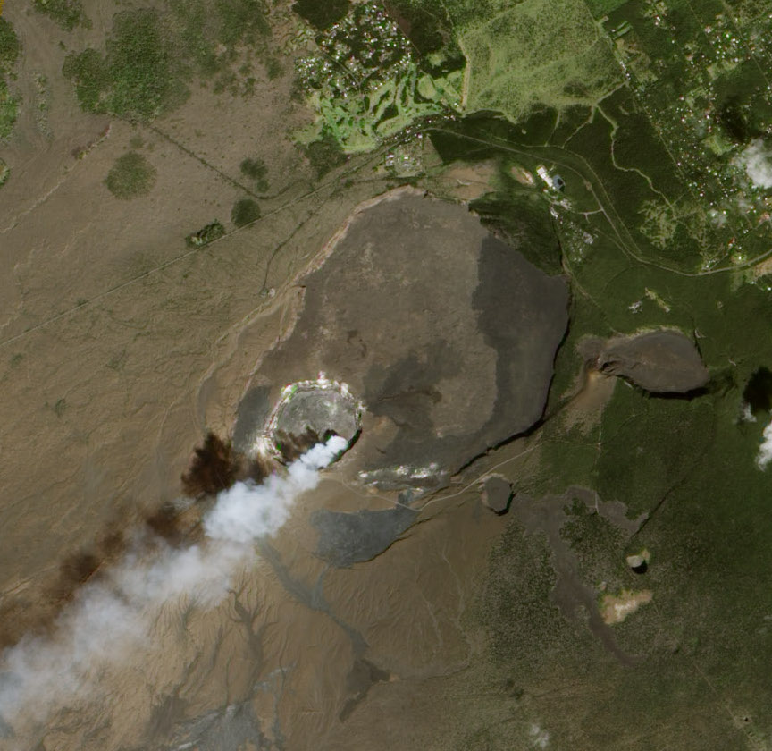 Satellite picture of Kilauea, Hawaii, United States